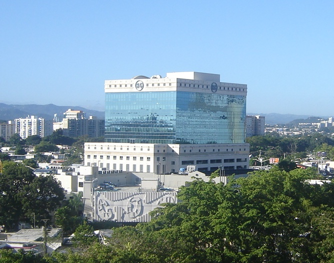 R-G Financial Corporation headquarter in Hato Rey, San Juan (Puerto Rico)